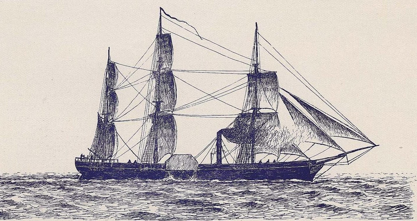 Savannah, first steamship to cross the Atlantic ocean (although mostly under sail).